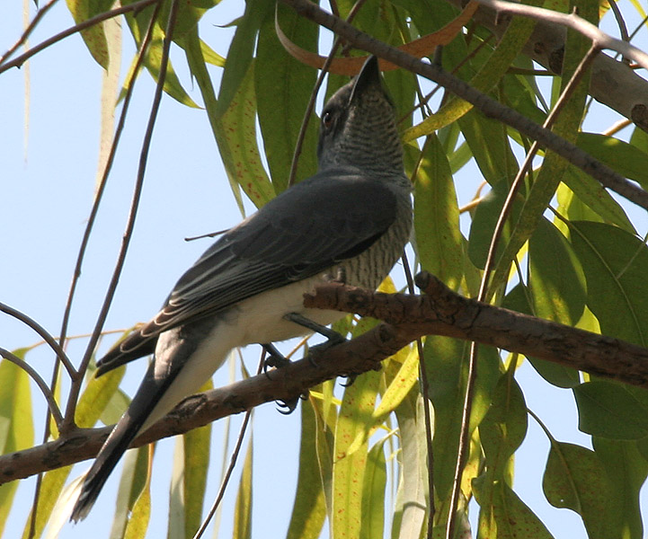 Large Cuckooshrike Coracina macei - Hindi: Kasya, Sans: Bruhat krushnaka, U.P: Khaki papiya, M.P: Bahram, Ben: Kabasi, Lepcha: Talling-pho, Guj: Moto kasio, Mar: Motha kuhuva, Te: Pedda akurai, Kan:Kogile kalinga- in Manjira Wildlife Sanctuary, Andhra Pradesh, India.